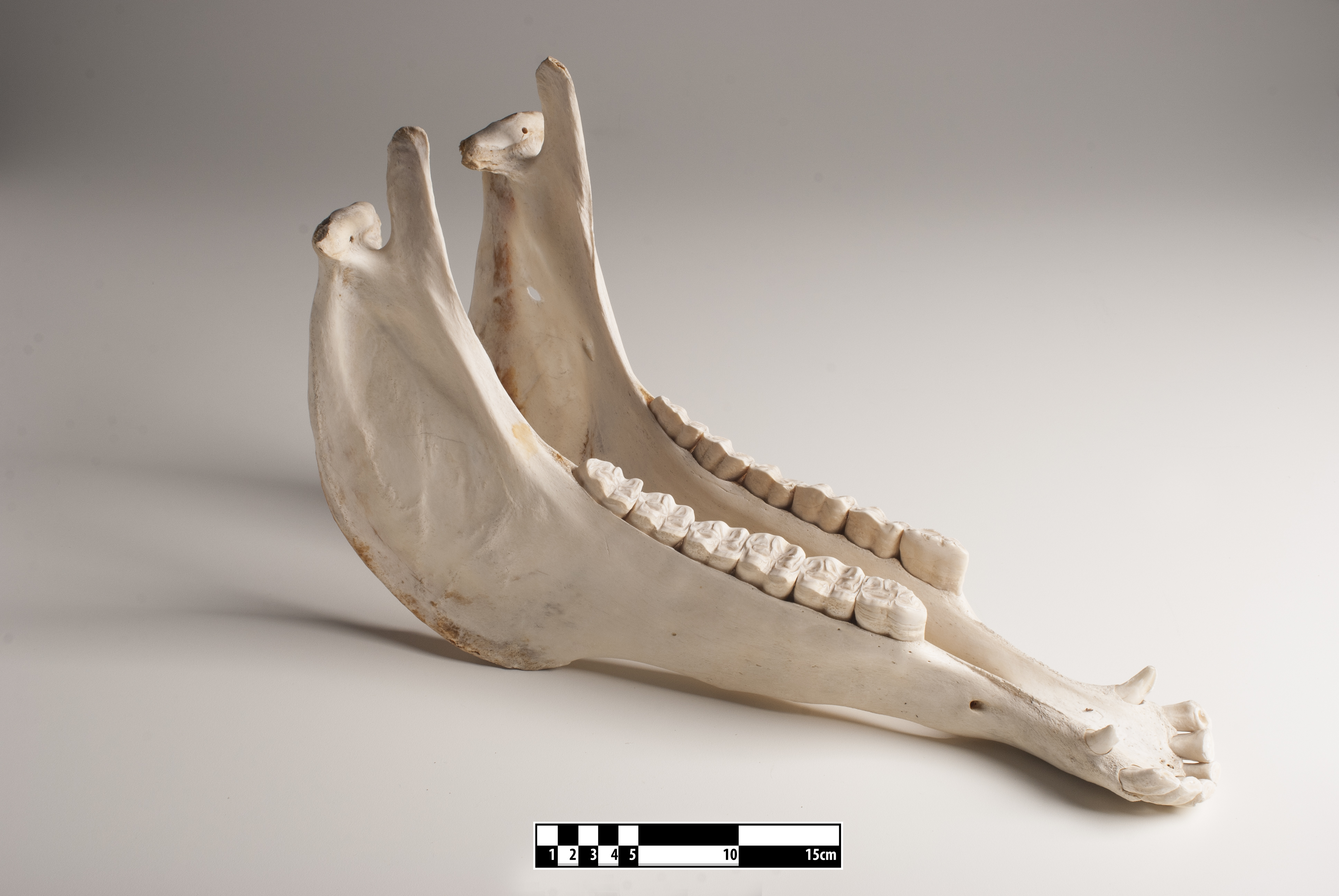 Horse jaw. Equus ferus caballus ‘’. Specimen of horse skull prepared by the bone maceration technique and on display at the Museum of Veterinary Anatomy, FMVZ USP. This file was published as the result of a partnership between the Museum of Veterinary Anatomy FMVZ USP, the RIDC NeuroMat and the Wikimedia Community User Group Brasil. This GLAM project is reported.